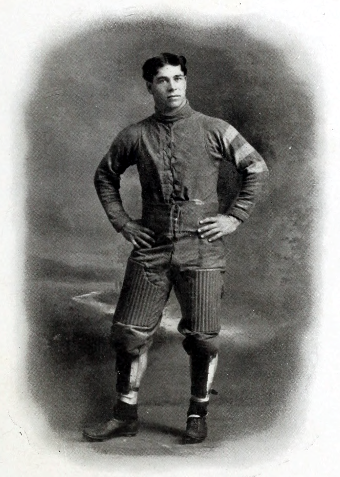 Fritz Furtick, Clemson football and track athlete